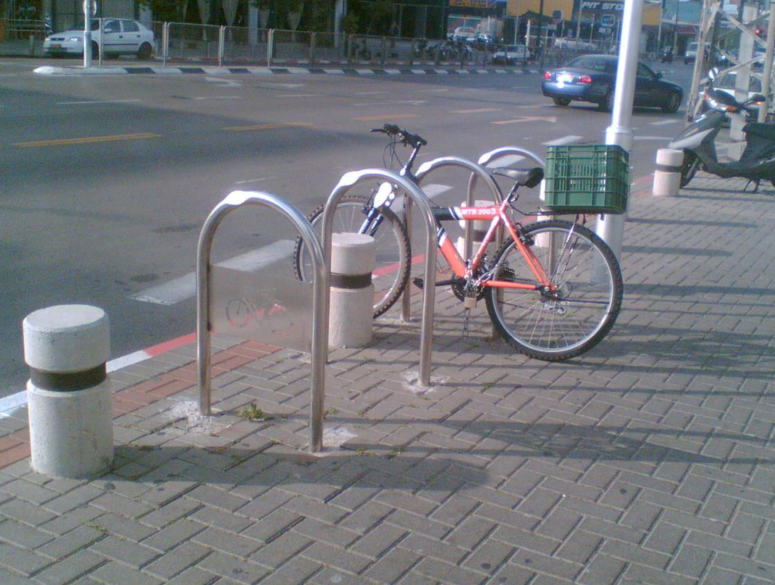 Bicycle parking on a sidewalk in Tel Aviv, Israel